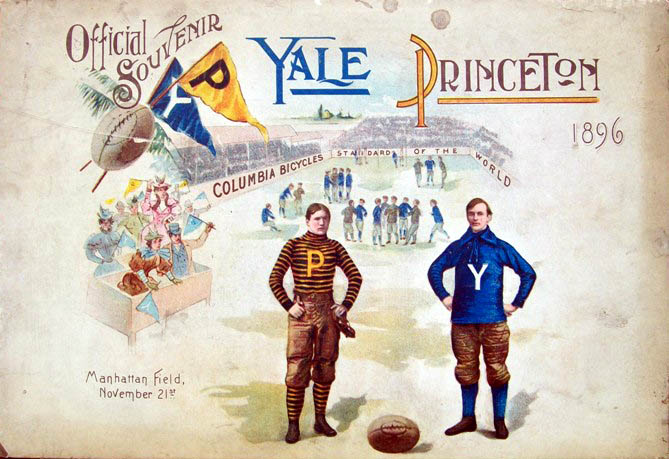 Yale v Princeton, official souvenir.